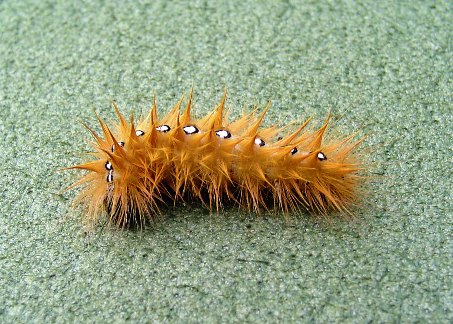 Sycamore caterpillar (Acronicta aceris), Åsnen, Sweden